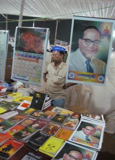 Buddhist lunisolar calendar and Neo Buddhist Books shop at Chaitya Bhoomi